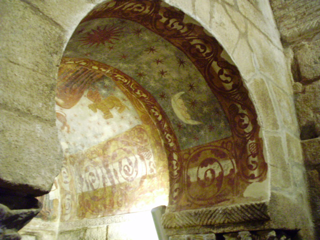 Visigothic church, Galicia, Spain, VII century